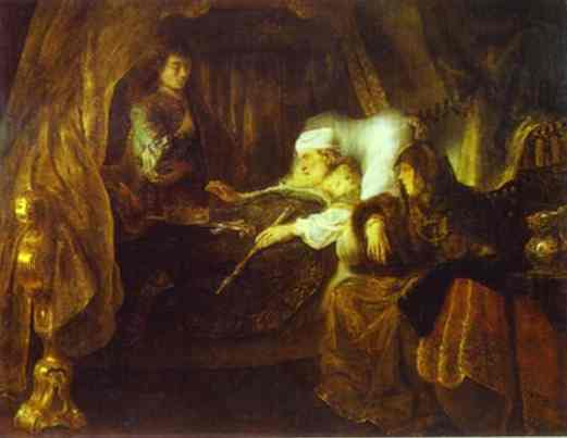 David's dying charge to Solomon, as in 1 Kings 2:1-12